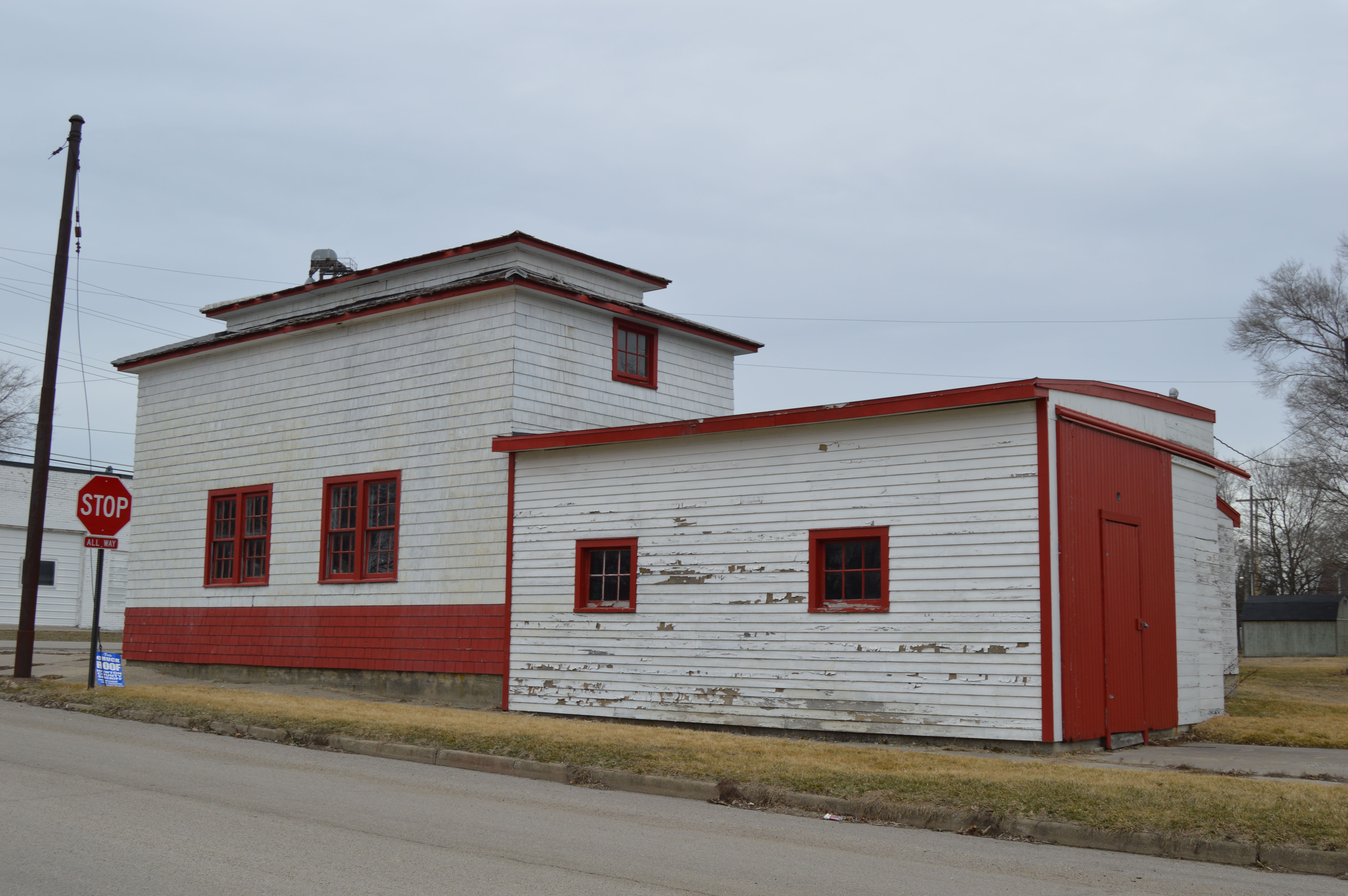 Southern side of the Seller's Standard Station and Pullman Diner complex, located on the northeastern corner of the junction of State and Polk Streets in Morocco, Indiana, United States. Built in 1935, it is listed on the National Register of Historic Places.